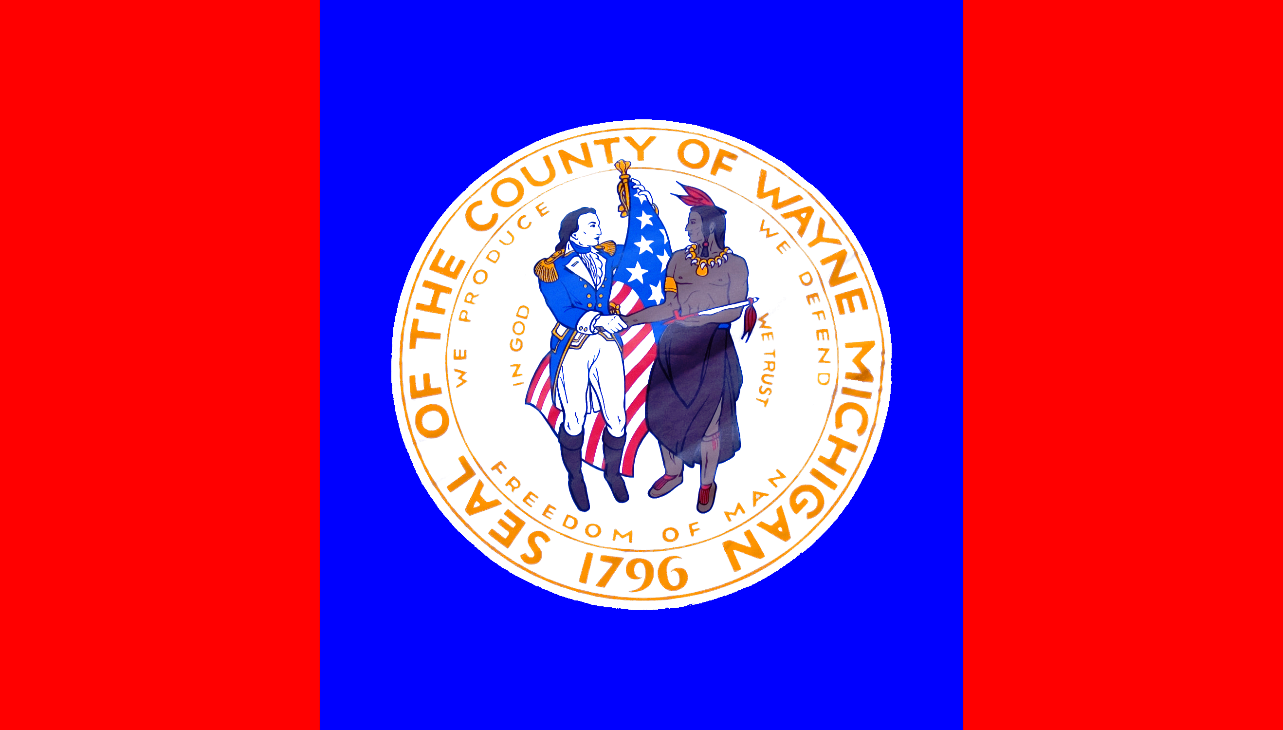 Flag of Wayne County, Michigan.